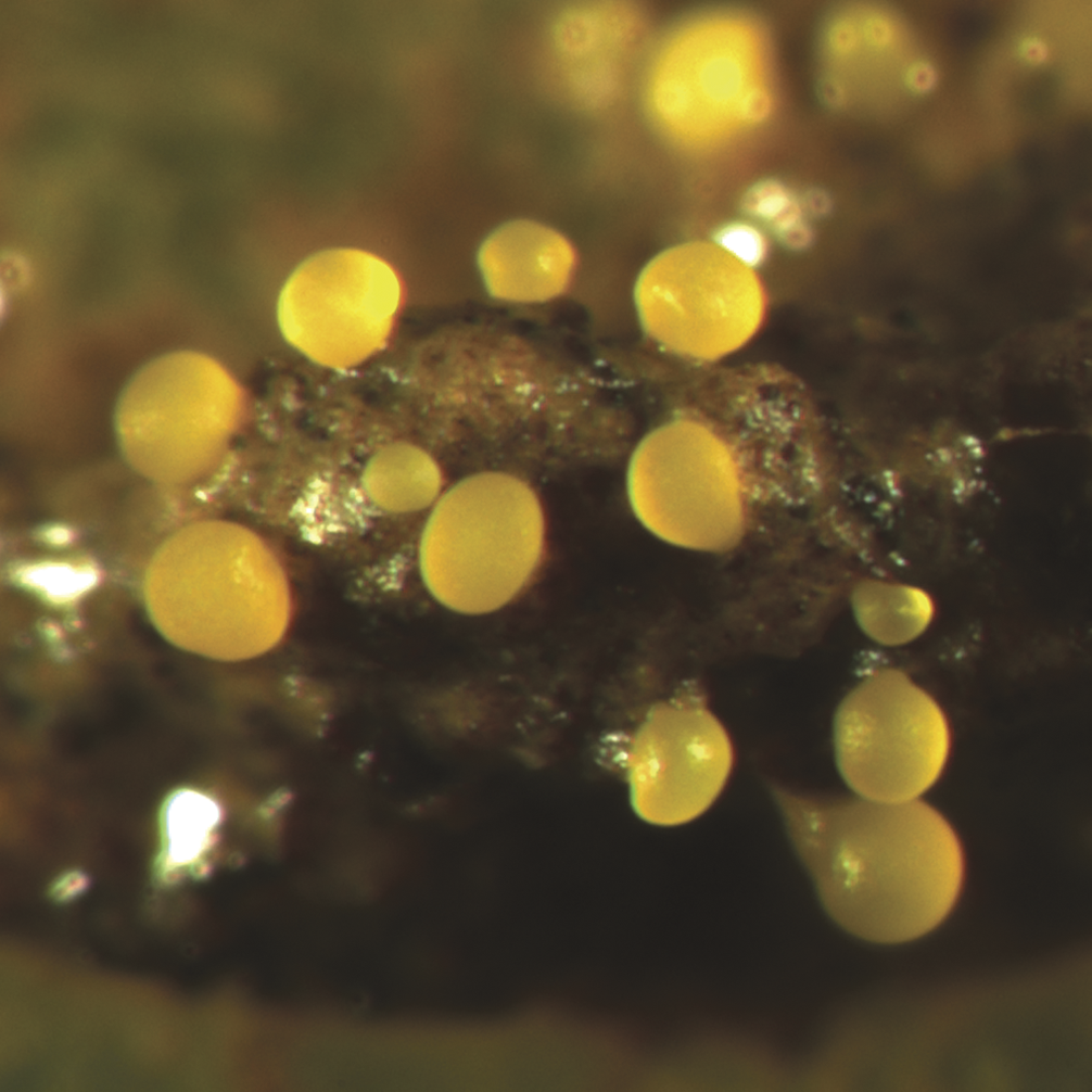 Some 100,000 Myxococcus xanthus cells amassed into a fruiting body with spores, above. Experimental competitions showed that some strains of this social bacterium exploited others.